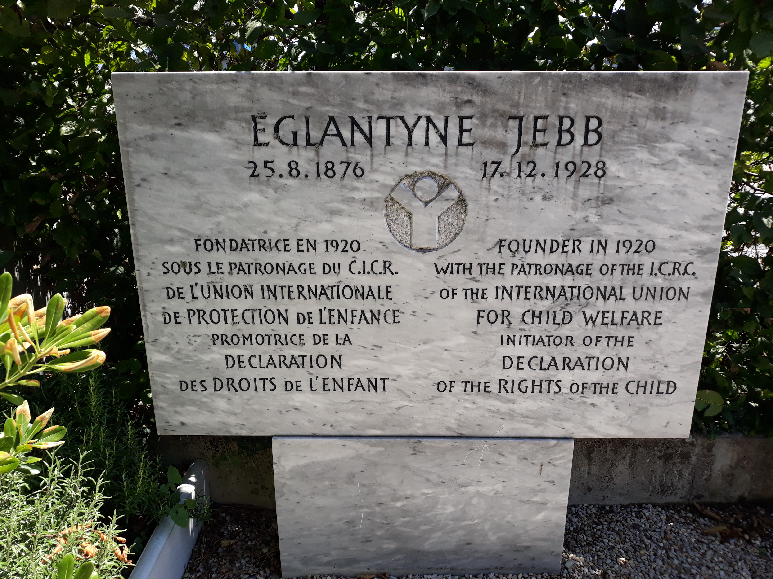 Memorial to Eglantyne Jebb (1876-1928) founder of the International union for Child Welfare.. This stone palque is part of a memorial garden located on the ICRC plot of land, avenue de la Paix (Geneva-Switzerland) in front of the United Nations side entrance.